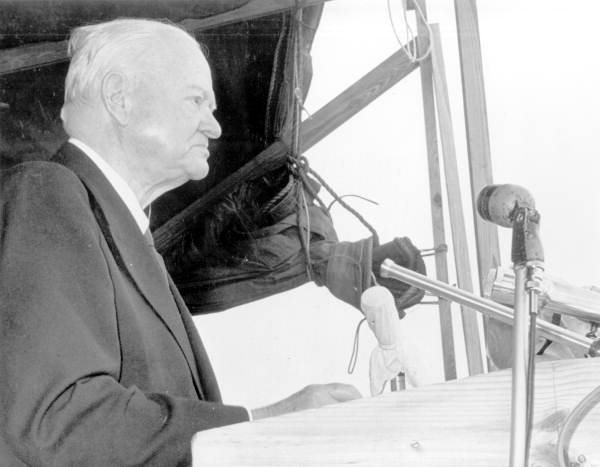 Former President Herbert Hoover speaking in 1961 in Clewiston, Florida, at the dedication of the dedication of his namesake dike along Lake Okeechobee.